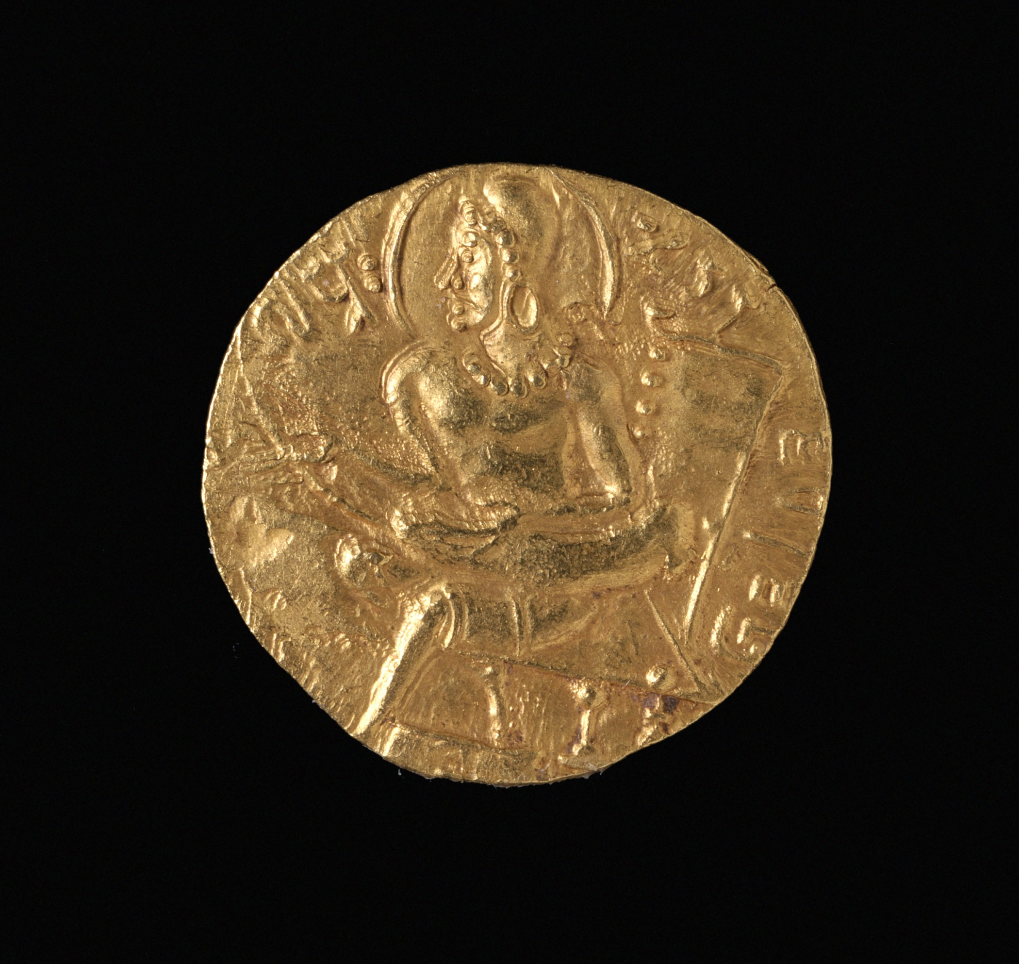 India, circa 335-376 Tools and Equipment; coins Gold Gift of Anna Bing Arnold and Justin Dart (M.77.55.16) South and Southeast Asian Art